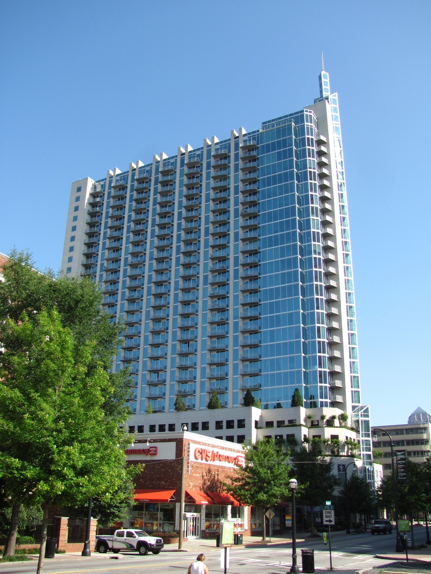 Spire, Midtown Atlanta Georgia, May 2010